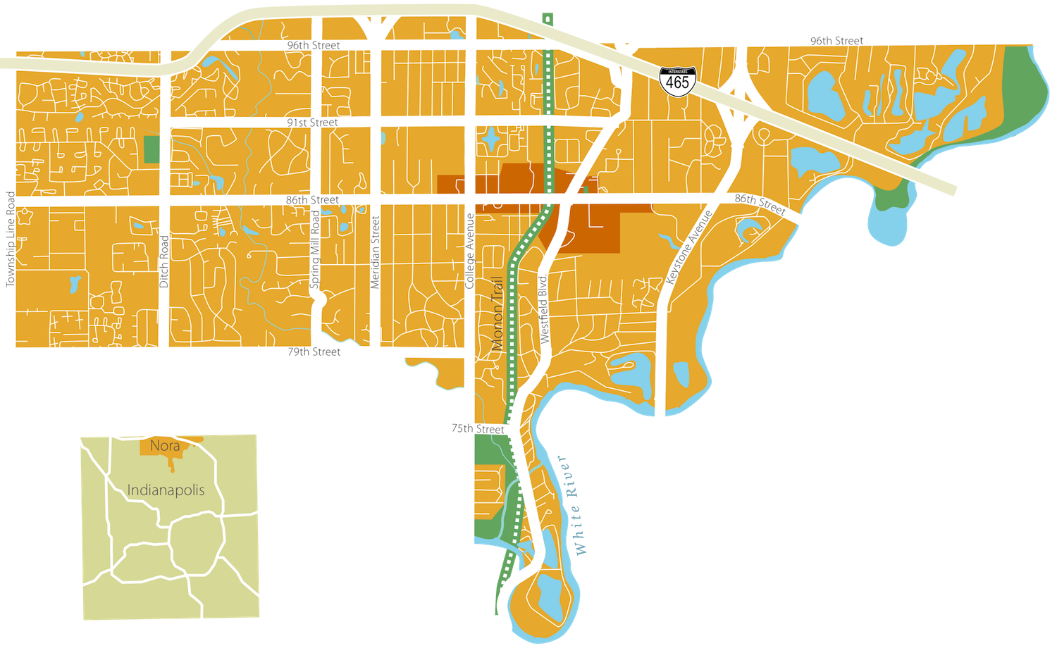 Nora, Indianapolis, IN locator map